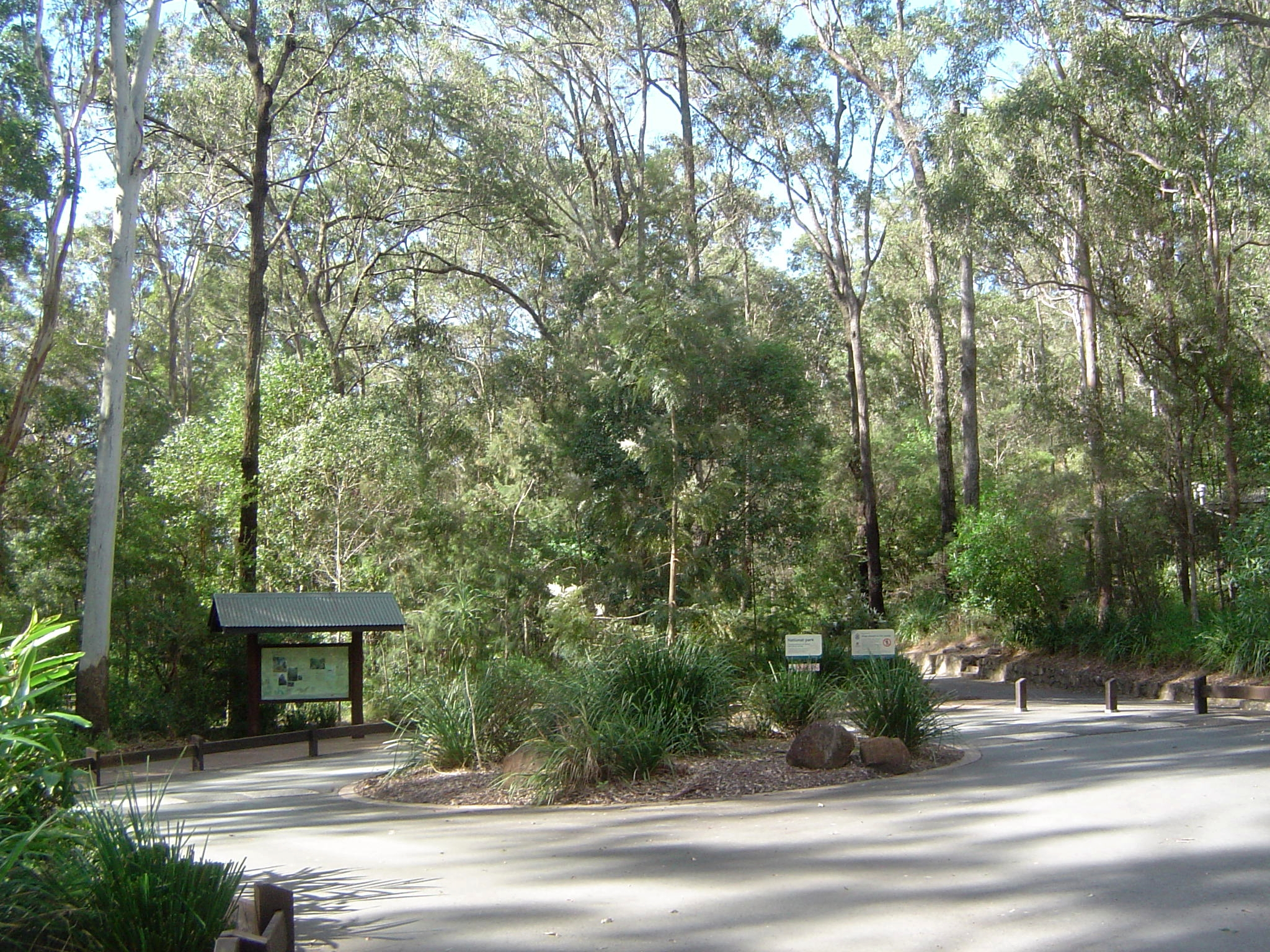 Photo of Cedar Creek Falls carpark, information hut, footpath and picnic area in Tamborine National Park, South East Queensland, Australia.